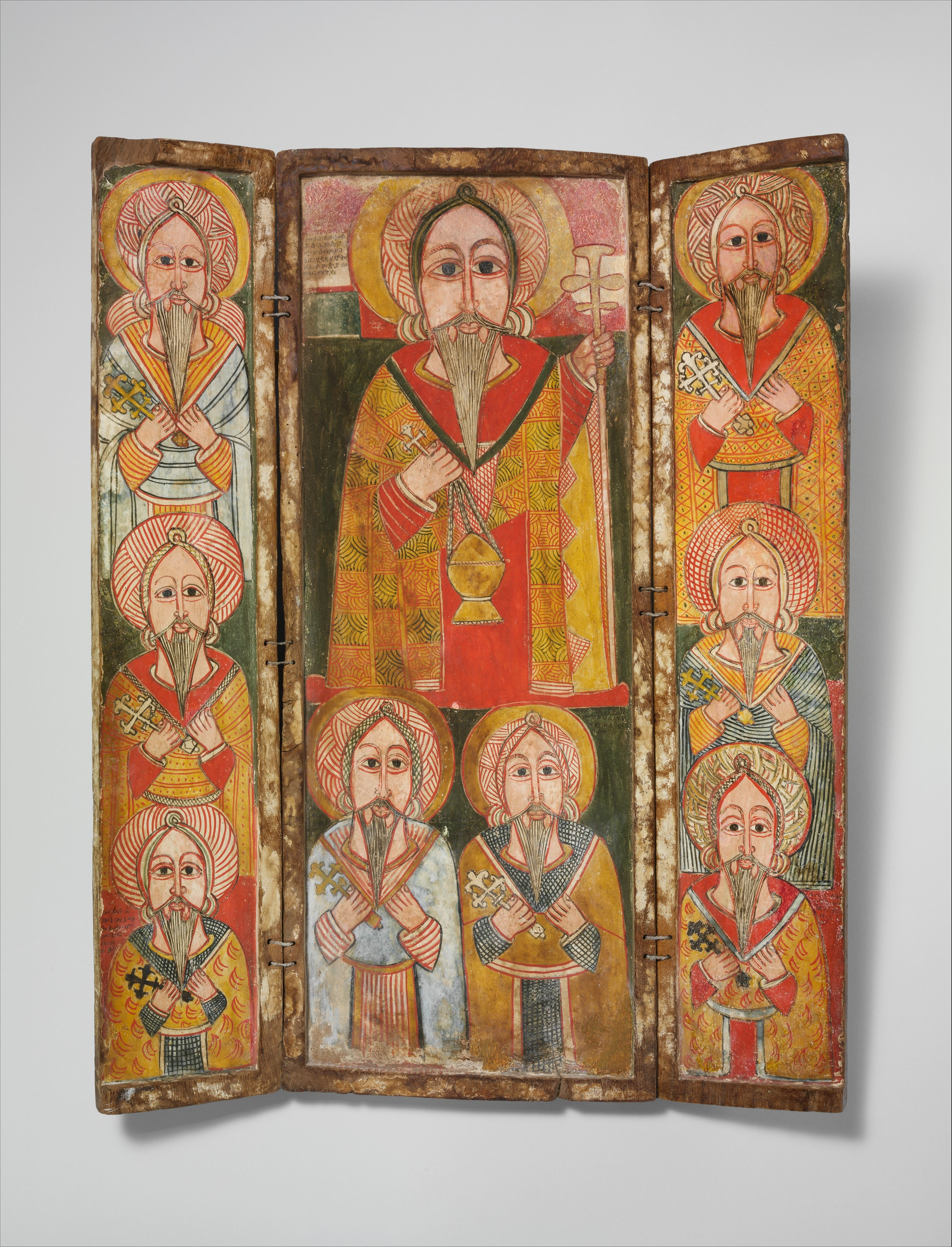 Amhara peoples; Icon; Wood-Paintings